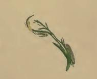 Stainton’s Natural History of the Tineina (1855–1873): Agonopterix putridella a piece of Peucedanum officinale leaf attacked by larva